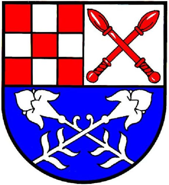 Coat of Arms of Burkardroth